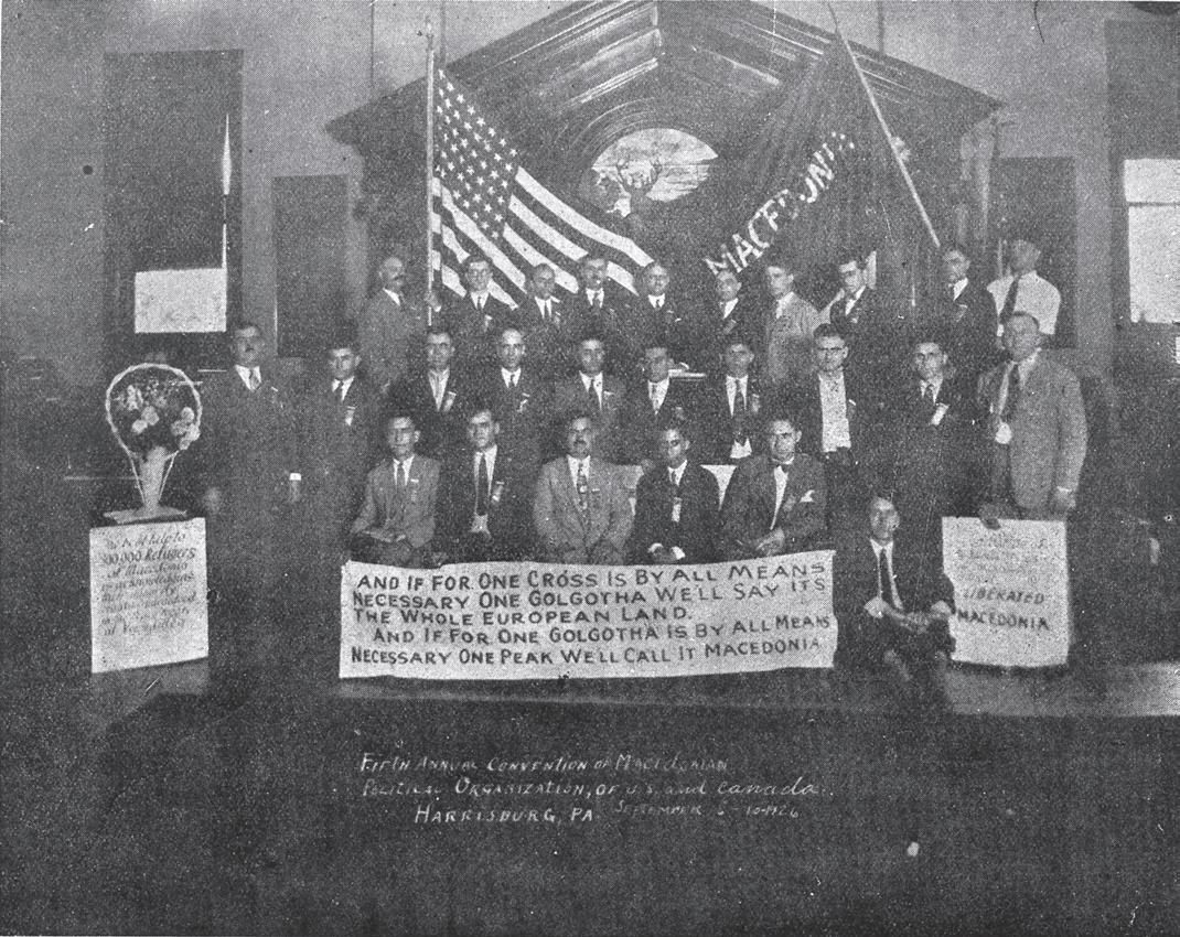 Macedonian patriotic organisation MPO 5th Convention in USA and Canada